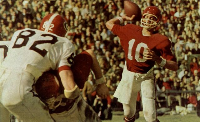 Bill Montgomery leading the Hogs against previously unbeaten Georgia in the 1969 Sugar Bowl.